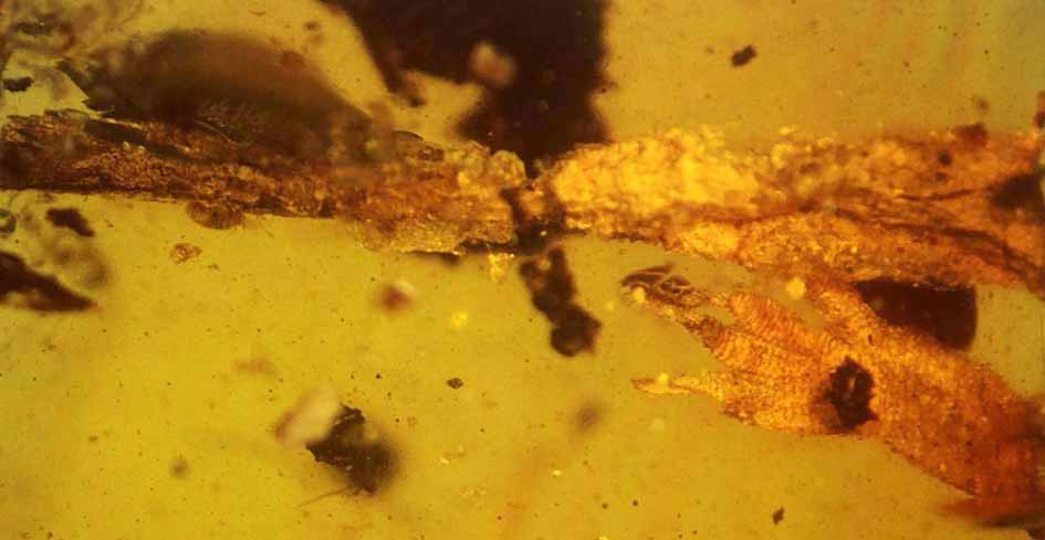 FIGURE 1. Holotype of Cretaceogekko burmae; ventral view of section of basal tail (above) and left hind leg (lower right); what appear to be toes I–III of the isolated right foot are visible in dorsal view distal to the tail section (upper left).